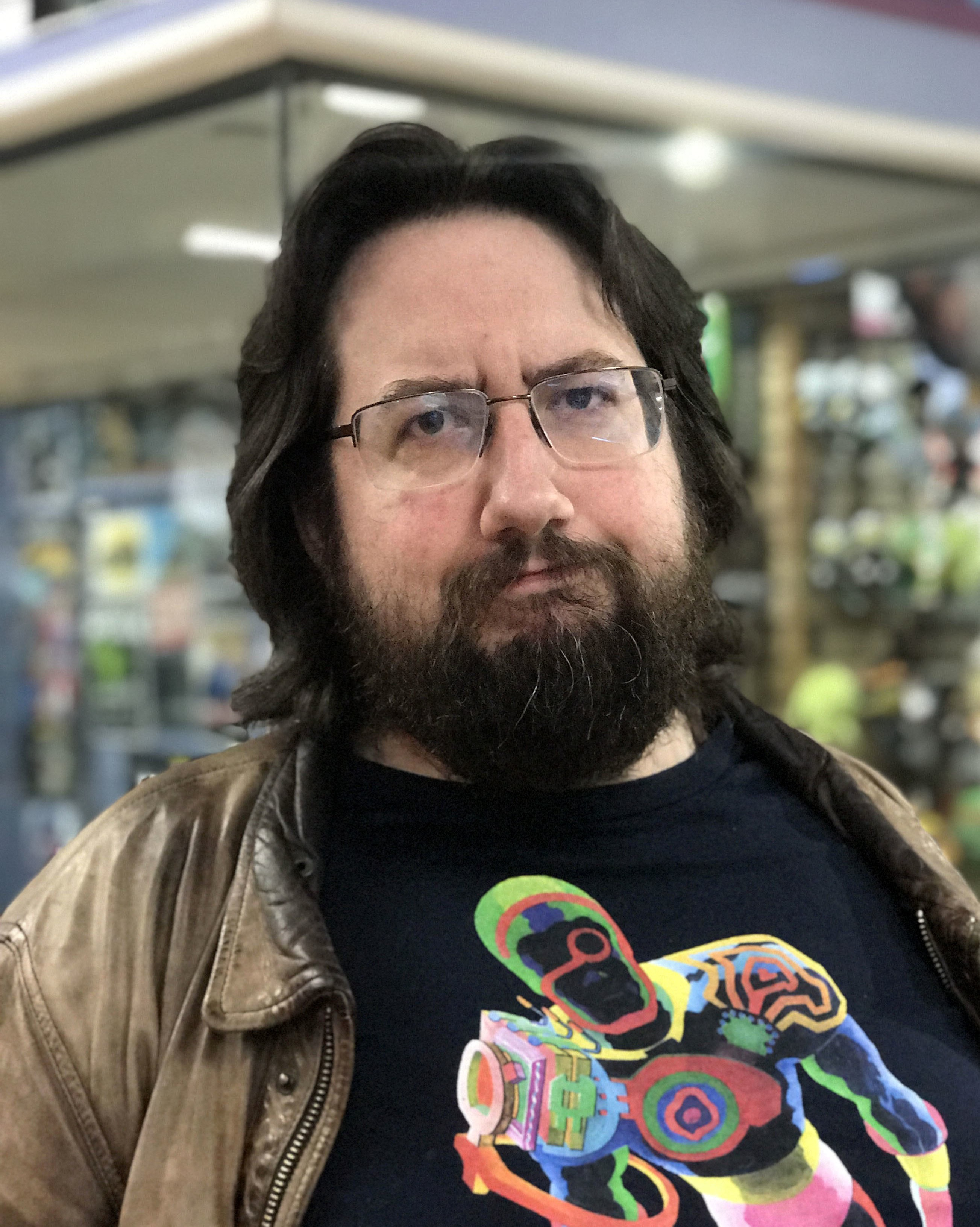 Comic book writer Al Ewing at a June 13, 2019 signing for The Immortal Hulk #19 at Midtown Comics Downtown in Manhattan. This photo was created by Luigi Novi. It is not in the public domain, and use of this file outside of the licensing terms is a copyright violation.